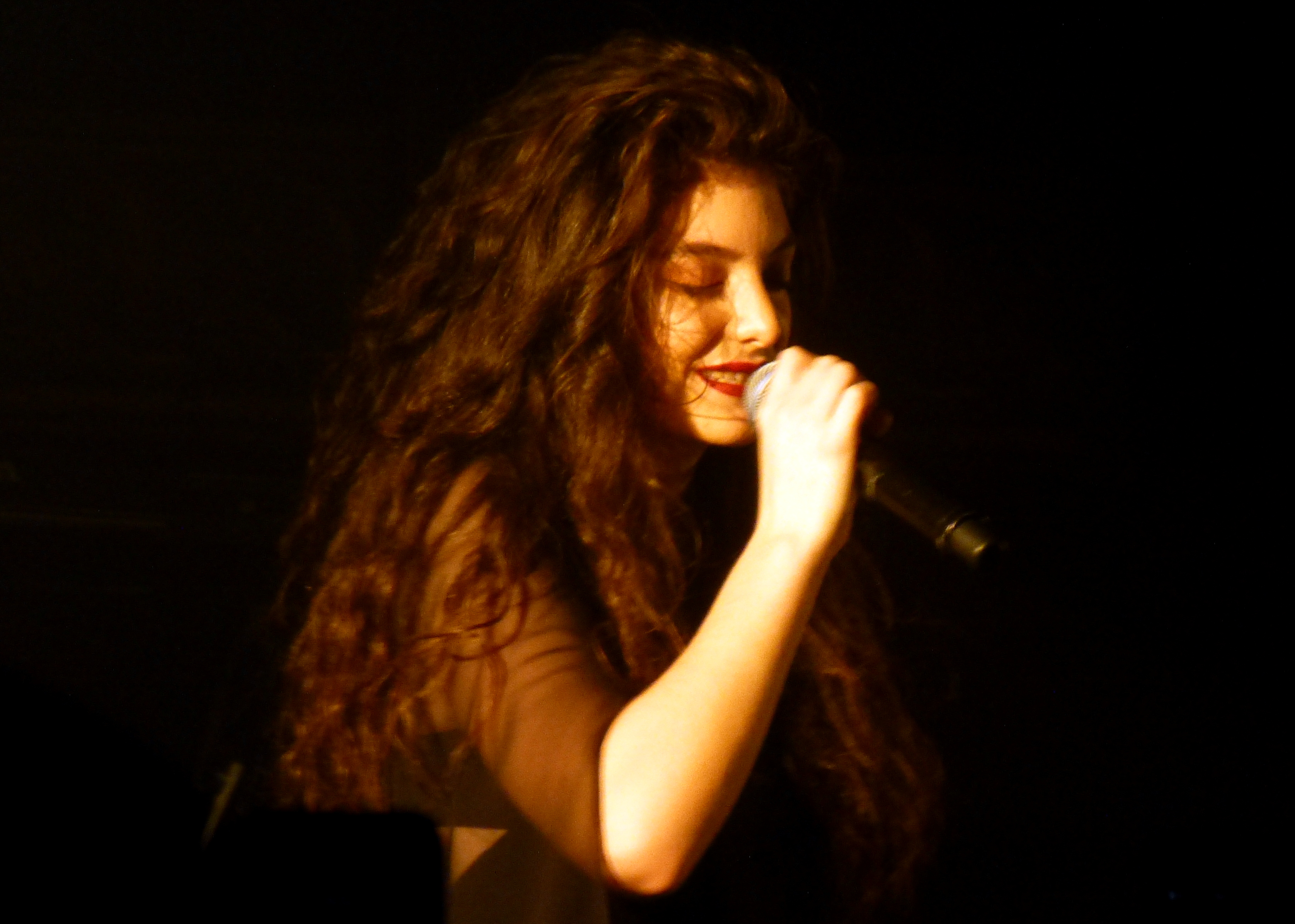 Lorde at The Fillmore, Detroit MI, 3/16/14